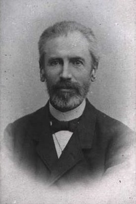 Hans Ludvig Schielderup Parelius Koch (1837-1917), Danish priest and historian